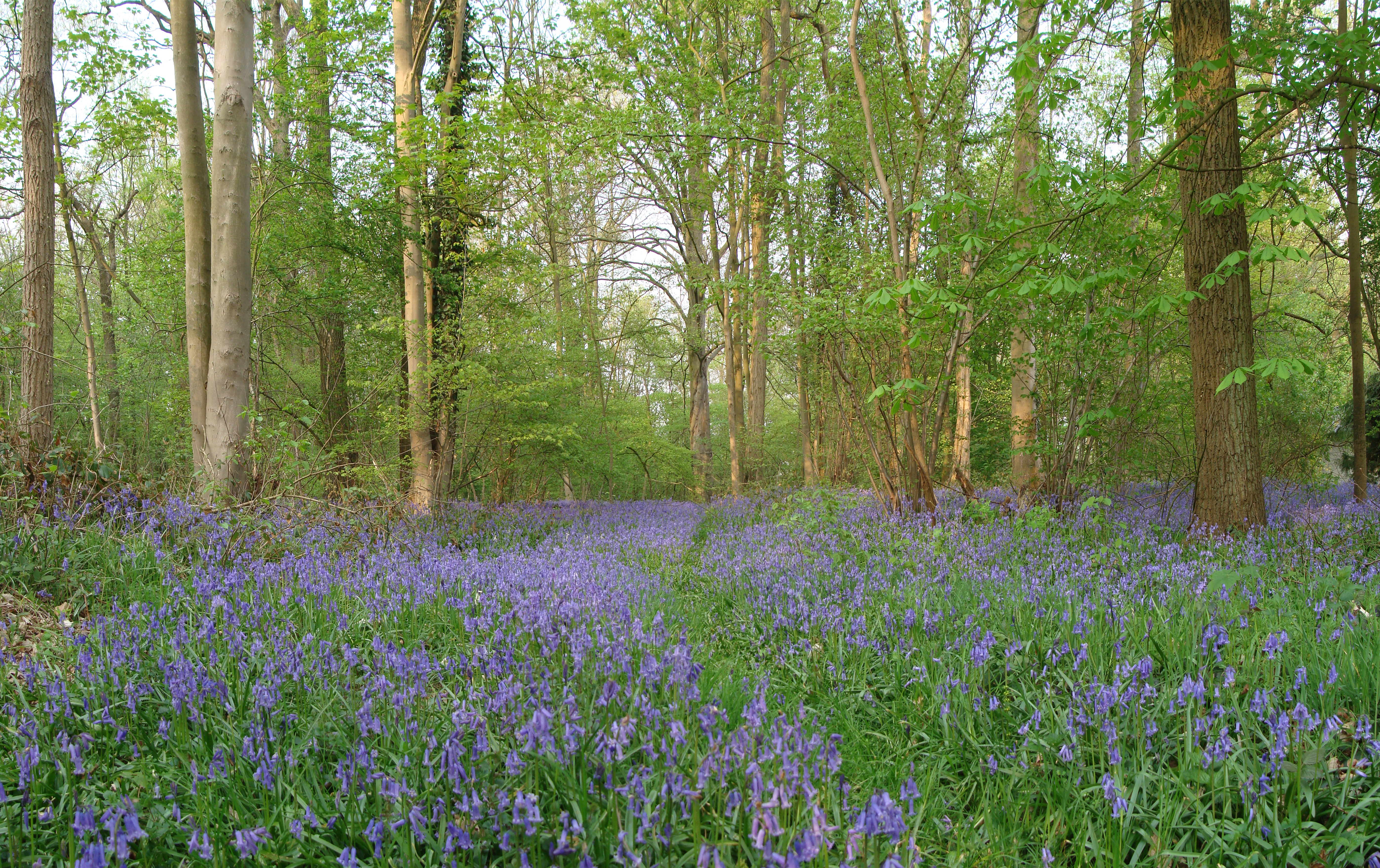 Bluebell wood in Ghlin, Mons, Belgium.